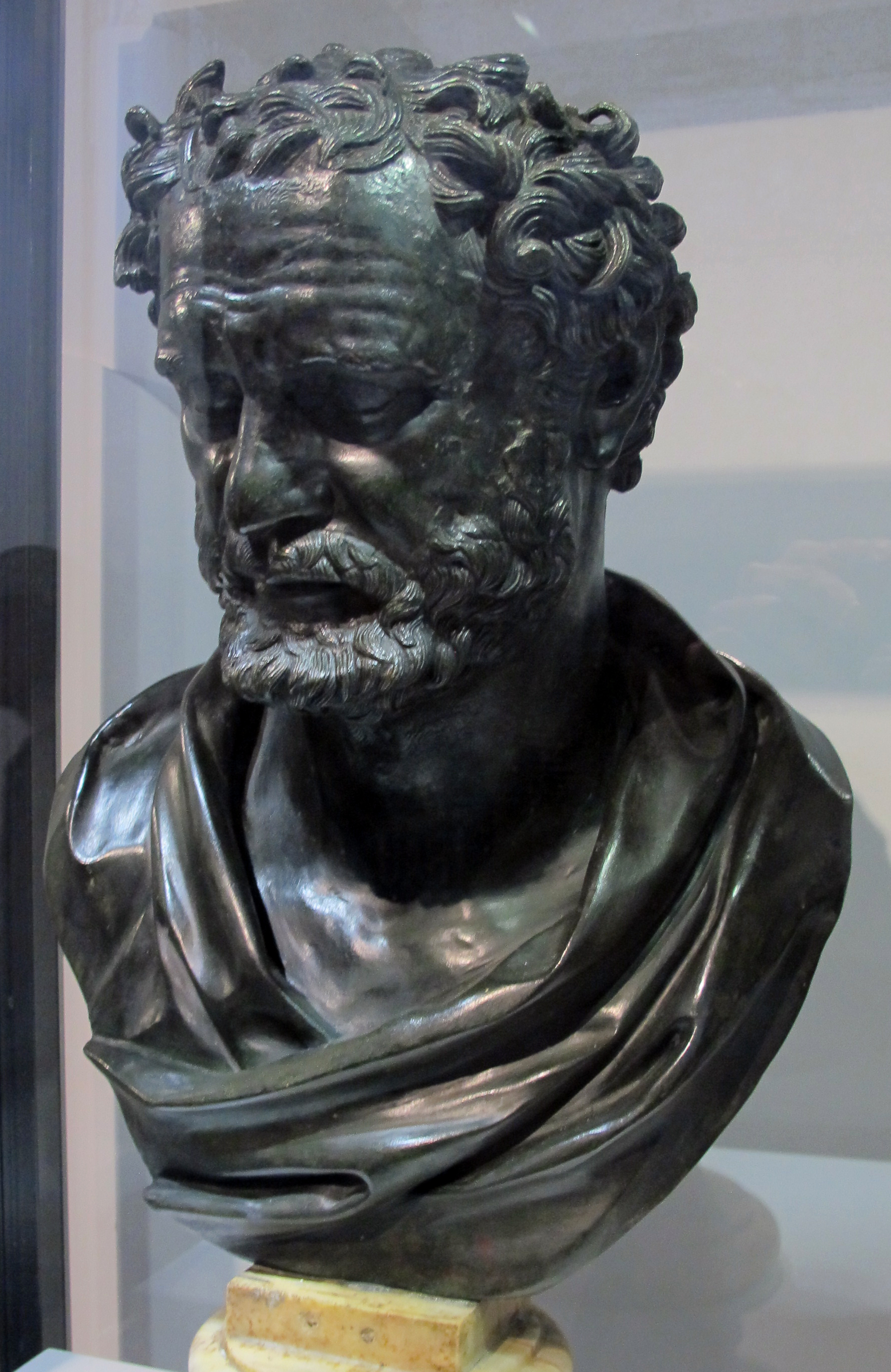 Ancient Libraries Exhibition (Colosseum, 2014). Bronze bust of a philosopher doubtfully identified as the philosopher Heraclitus. The original was found in the Villa of the Papyri in Herculaneum, and is now in the Museo Archeologico in Naples (inv. nr. 5623). Concerning this sculpture, the Naples Museum says [1]: "The identification of the character, remains problematic. In the past it was proposed to recognize the piece as Heraclitus, but in more recent times, it has been suggested that it is Empedocles."